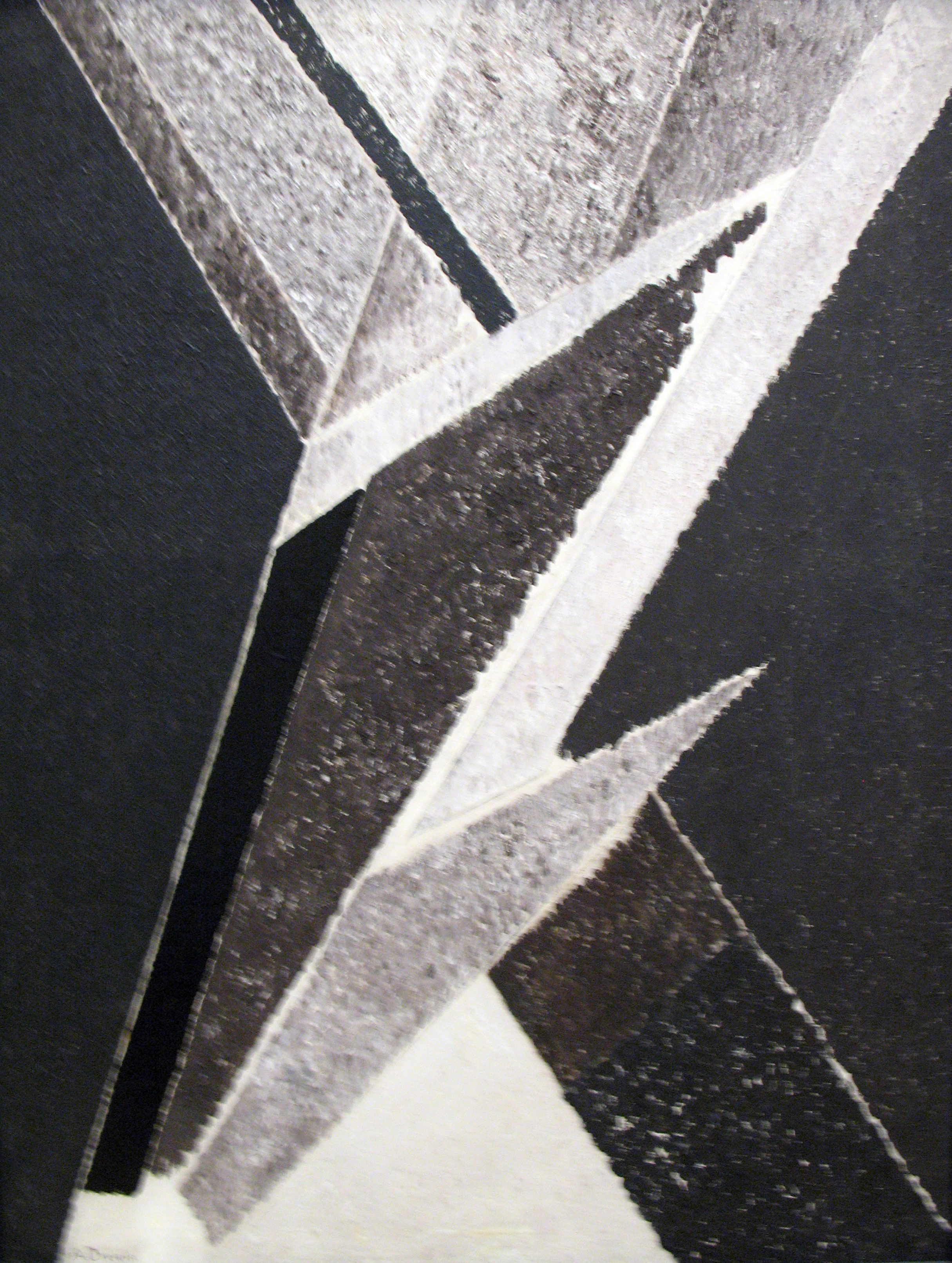 Painterly composition